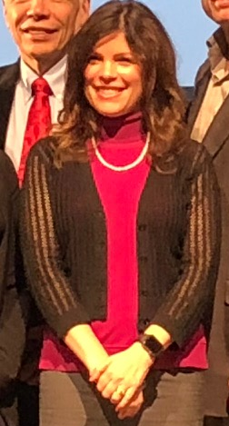 Panel speakers at a symposium held in Montreal on October 29, 2018, by the McGill Office for Science and Society. Left to right: Doina Precup, Derek Ruths, Ada McVean, Joseph Schwarcz, Tal Arbel, Lorne Trottier, Cameron Smith, Alex Shee, Ian Kerr, Kenneth Foster.